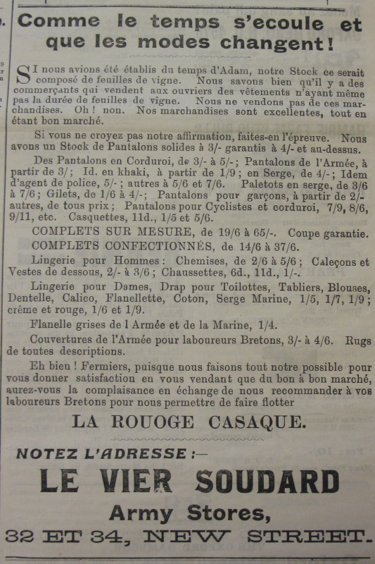 Advertisement in French and Jèrriais from newspaper La Chronique de Jersey, 1911, Jersey This image (or other media file) is in the public domain because its copyright has expired. This applies to Australia, the European Union and those countries with a copyright term of life of the author plus 70 years. You must also include a United States public domain tag to indicate why this work is in the public domain in the United States. Note that a few countries have copyright terms longer than 70 years: Mexico has 100 years, Colombia has 80 years, and Guatemala and Samoa have 75 years, Russia has 74 years for some authors. This image may not be in the public domain in these countries, which moreover do not implement the rule of the shorter term. Côte d'Ivoire has a general copyright term of 99 years and Honduras has 75 years, but they do implement the rule of the shorter term. This file has been identified as being free of known restrictions under copyright law, including all related and neighboring rights.